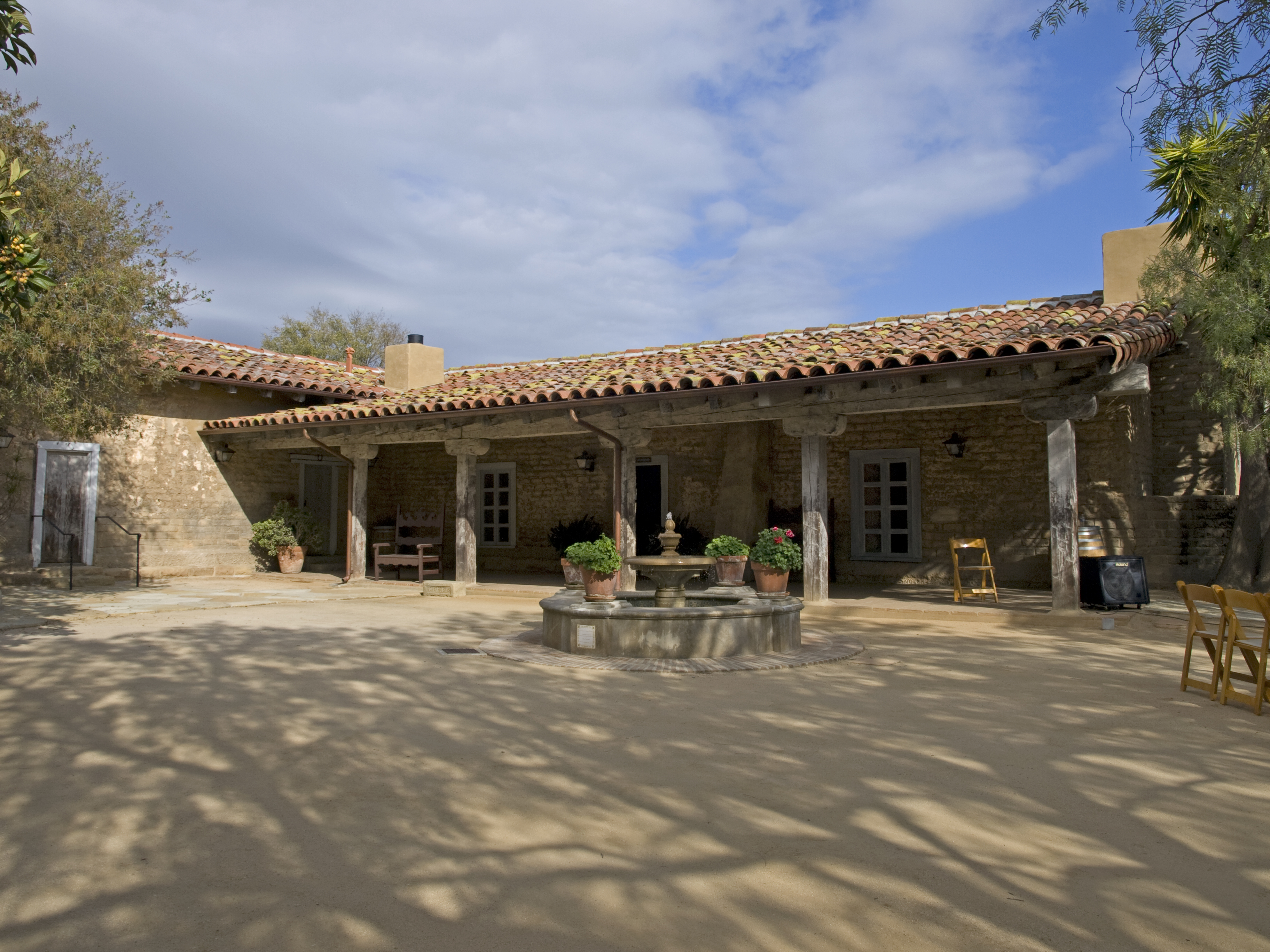 Historical Adobe (1836), located in the backyard of the Historical Museum, Santa Barbara, California